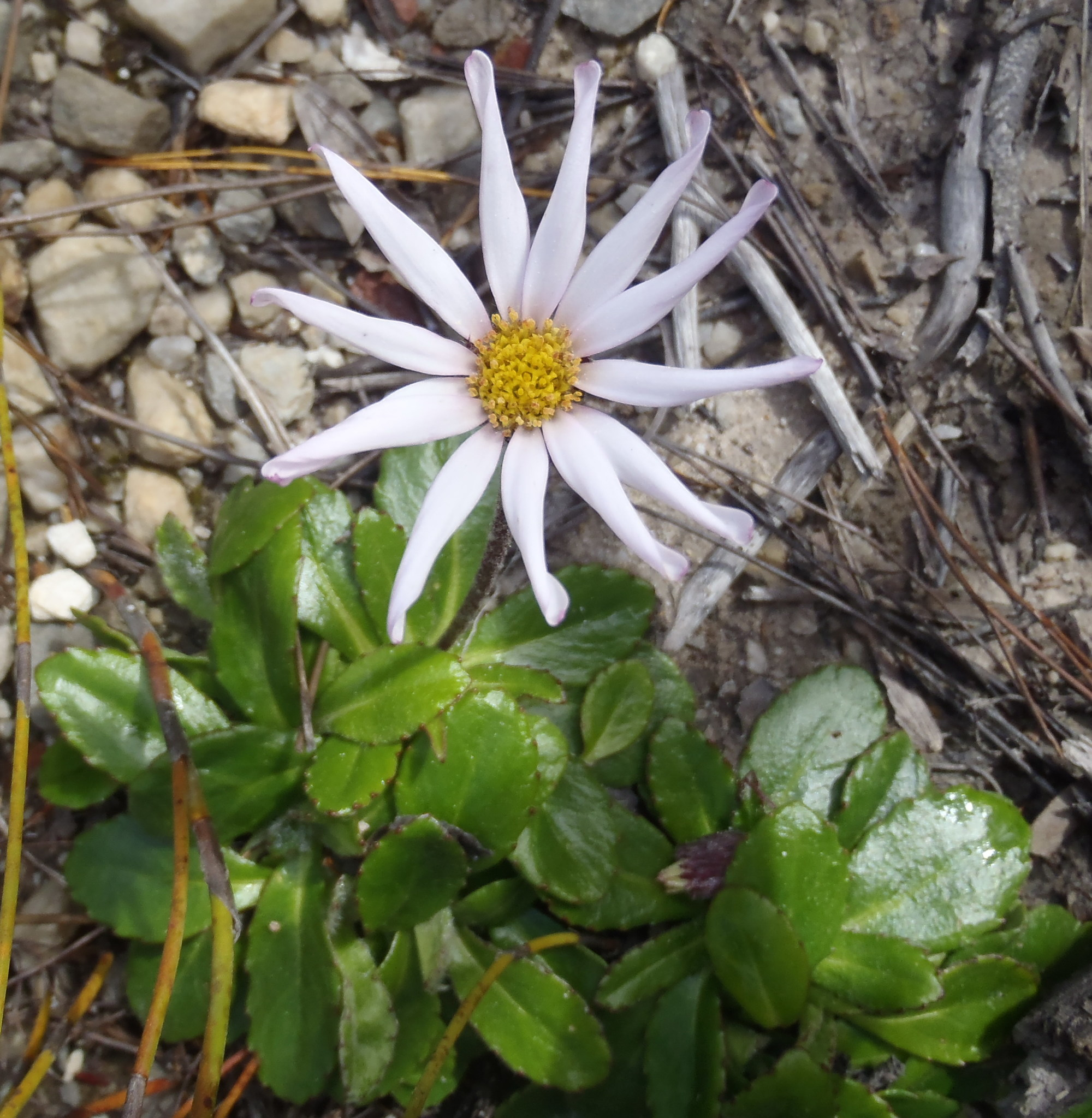 Mairea crenata, photographed by Nicola van Berkel, on 7 September 2012, at Spitskop, Knysna County, Western Cape province of South Africa